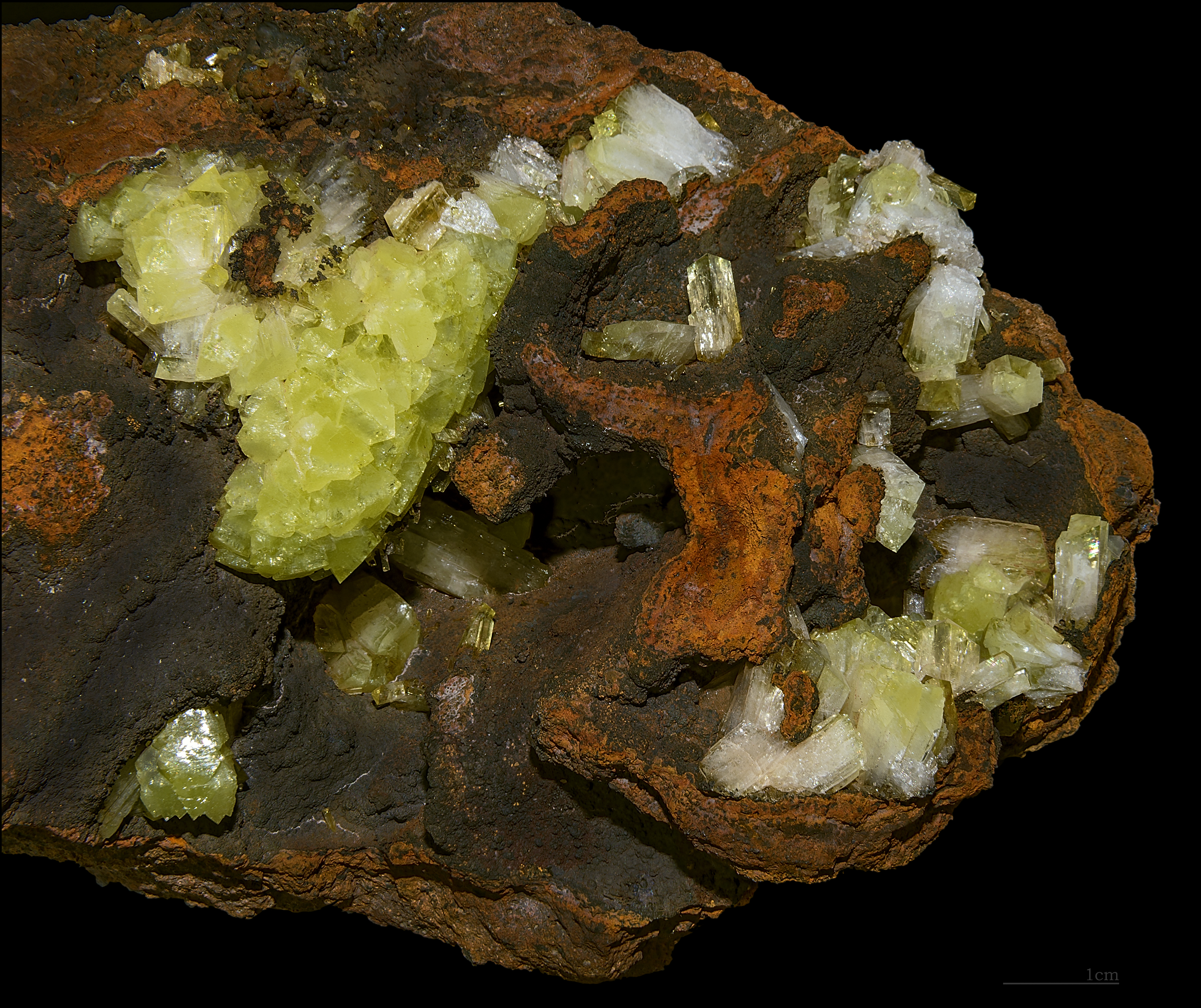 Admaite Locality : Ojuela Mine, Mapimí, Municipio de Mapimí, Durango, Mexico (14x10cm).